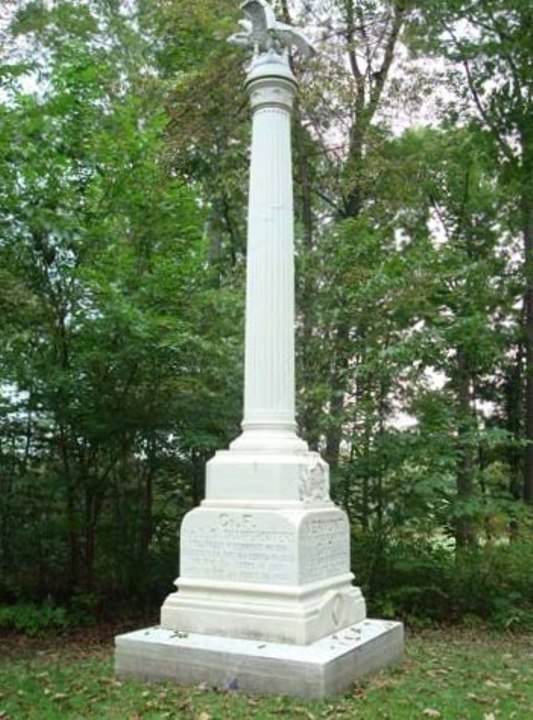 Company F, 1st United States (Vermont) Sharpshooters Monument, Pitzer Woods, Gettysburg Battlefield.